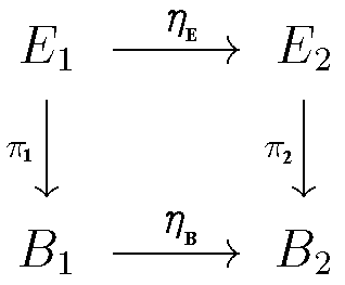 An illustration of ファイバー束（Fiber bundle）